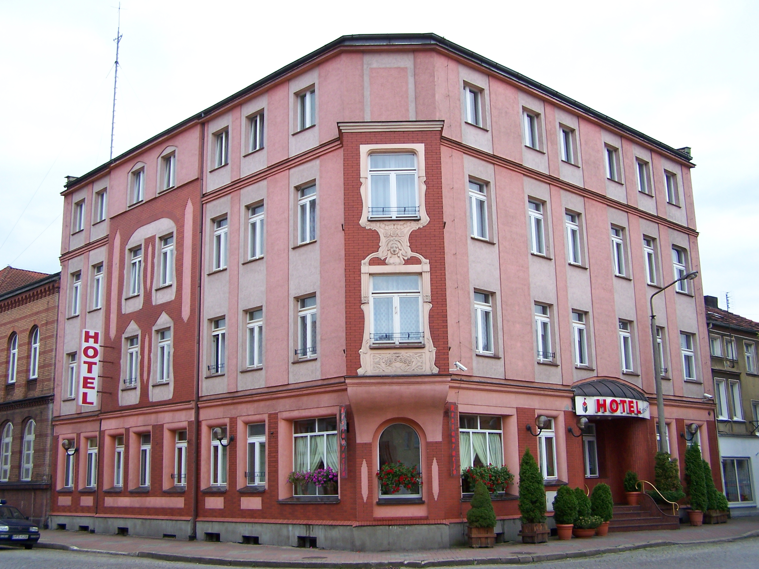 Hotel in Rzepin (Poland).